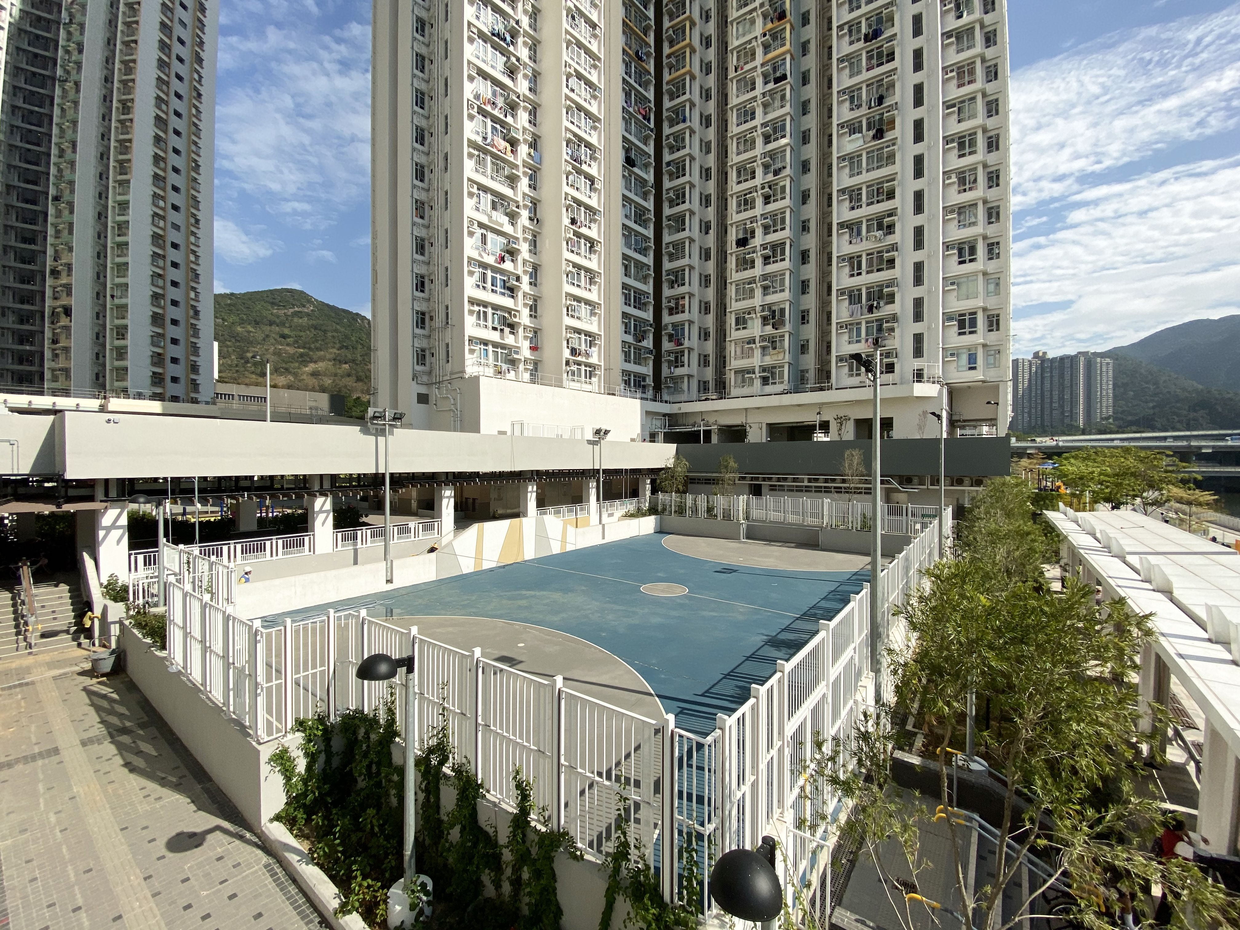 Shek Mun Estate Soccer Court